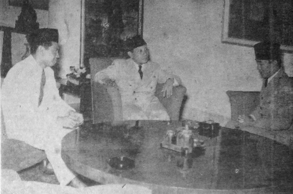 Sukarno speaking with Wilopo and Prawoto Mangkusaswito